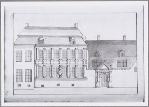 The "Hof van Cuba" as it was in the XVI Century